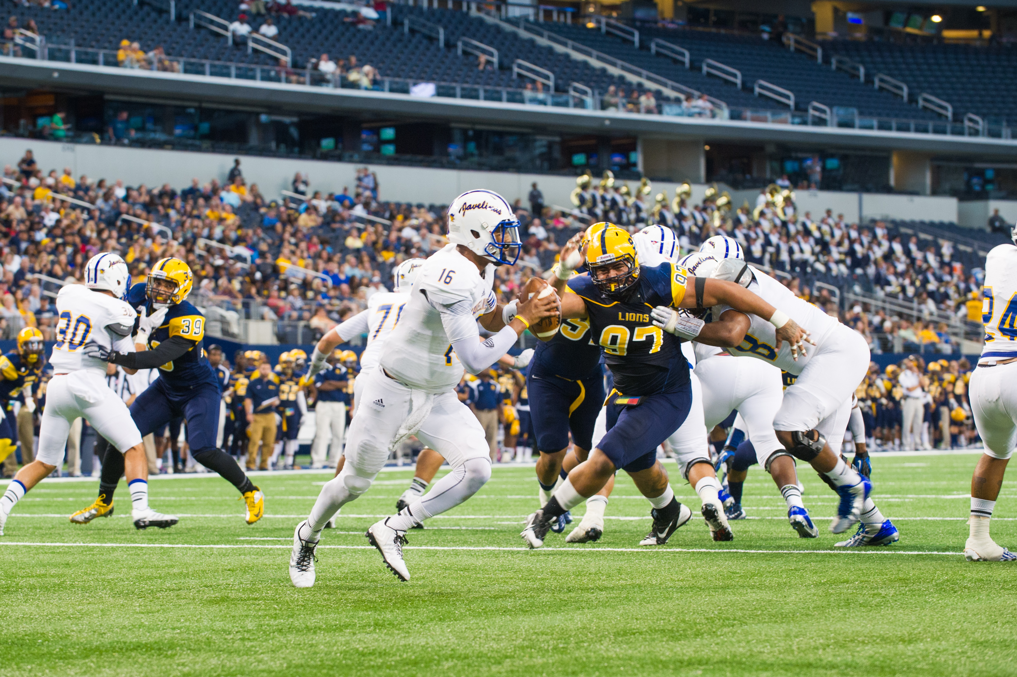 14453-LSC Football Festival-1799.jpg Scenes from the Texas A&M–Kingsville Javelinas vs. Texas A&M–Commerce Lions football game at AT&T Stadium in Arlington on September 20, 2014.